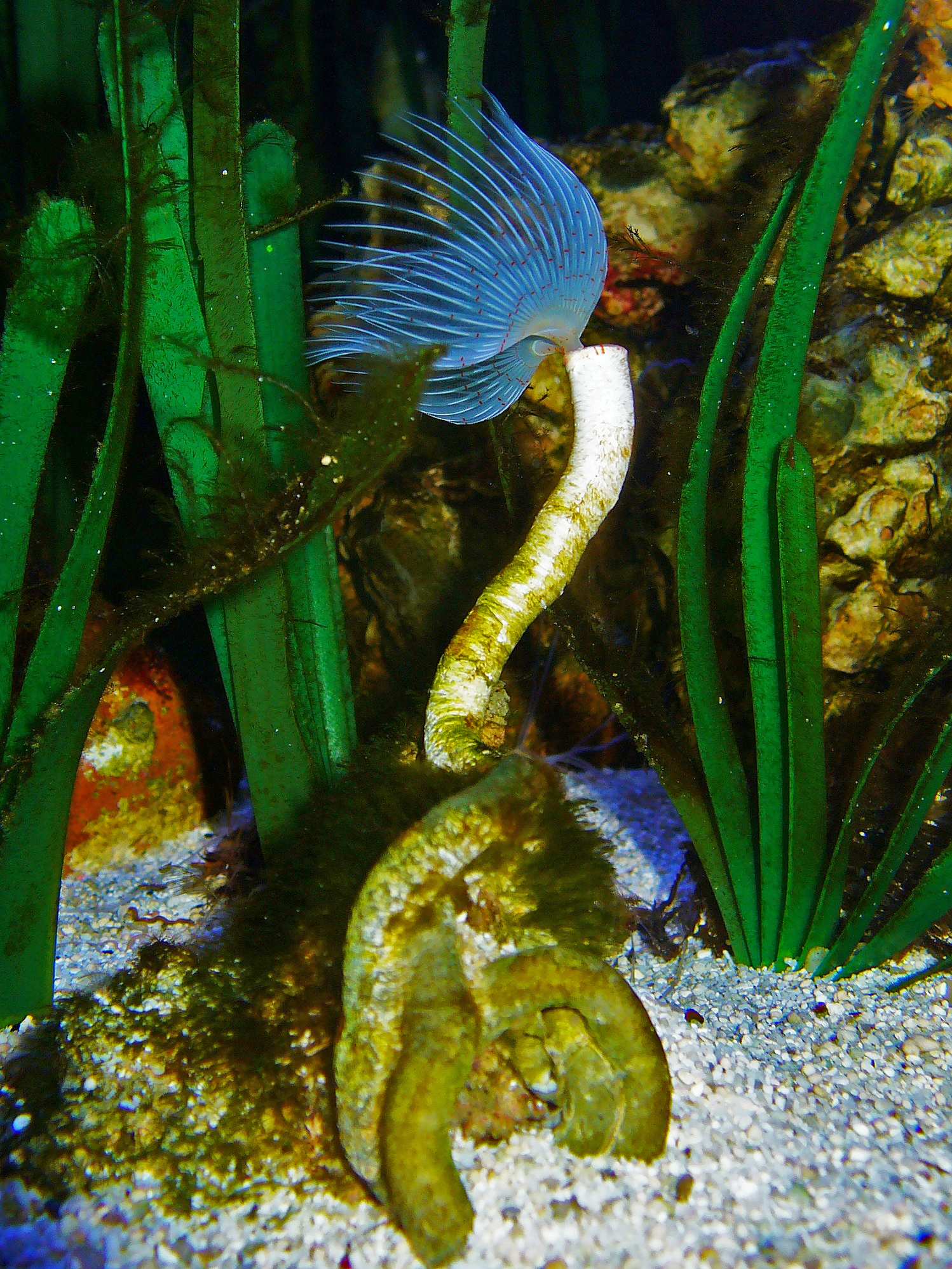 Protula tubularia, Serpulidae, White Tufted Worm; Staatliches Museum für Naturkunde Karlsruhe, Germany.